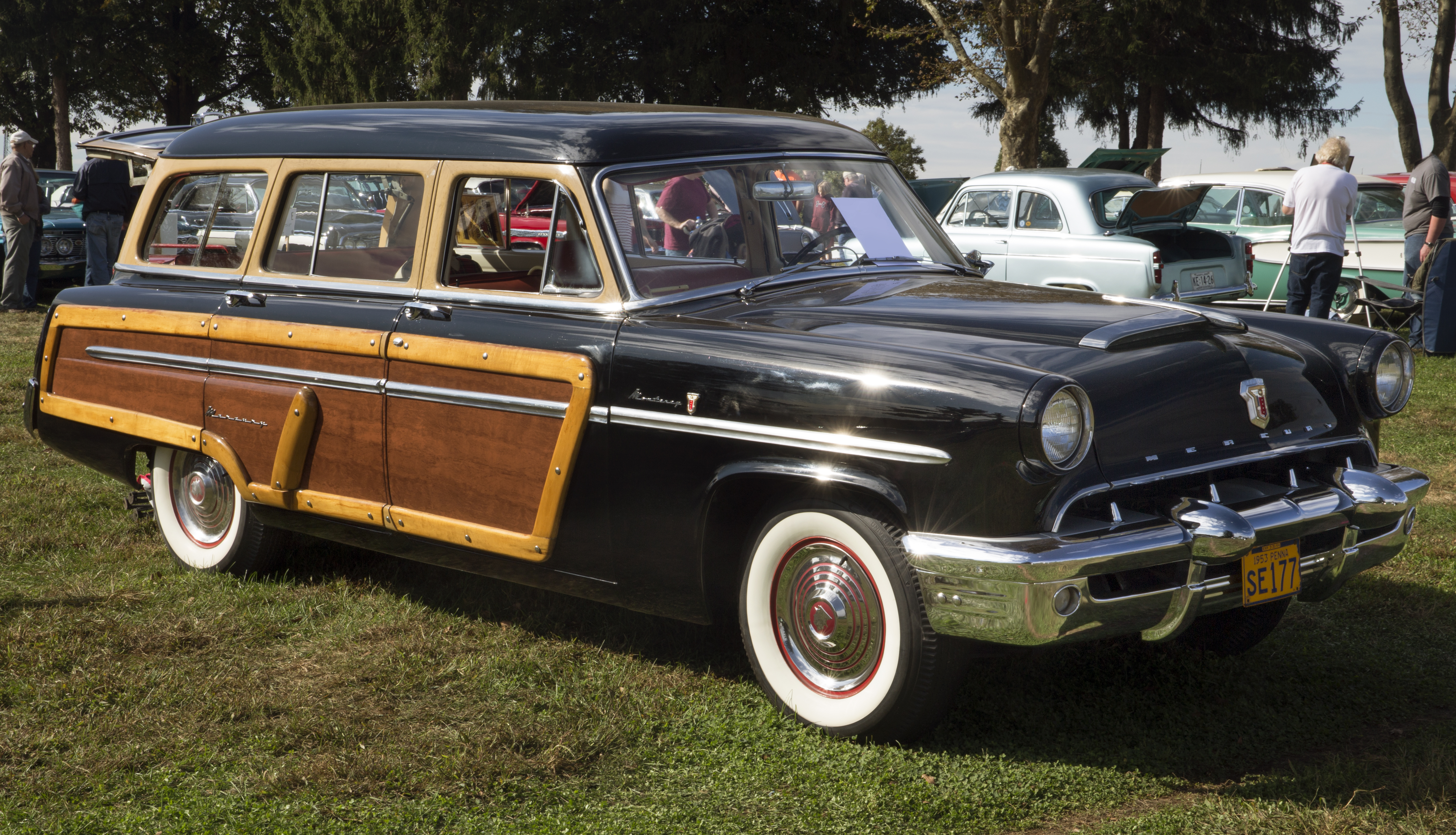 A 1953 Mercury Monterey Station Wagon (8-cylinder) in India Black in the show area at Hershey 2019. Major Homer E. Carney splurged on an automatic transmission as well as backup lights. The car was delivered new on 6 February 1953.